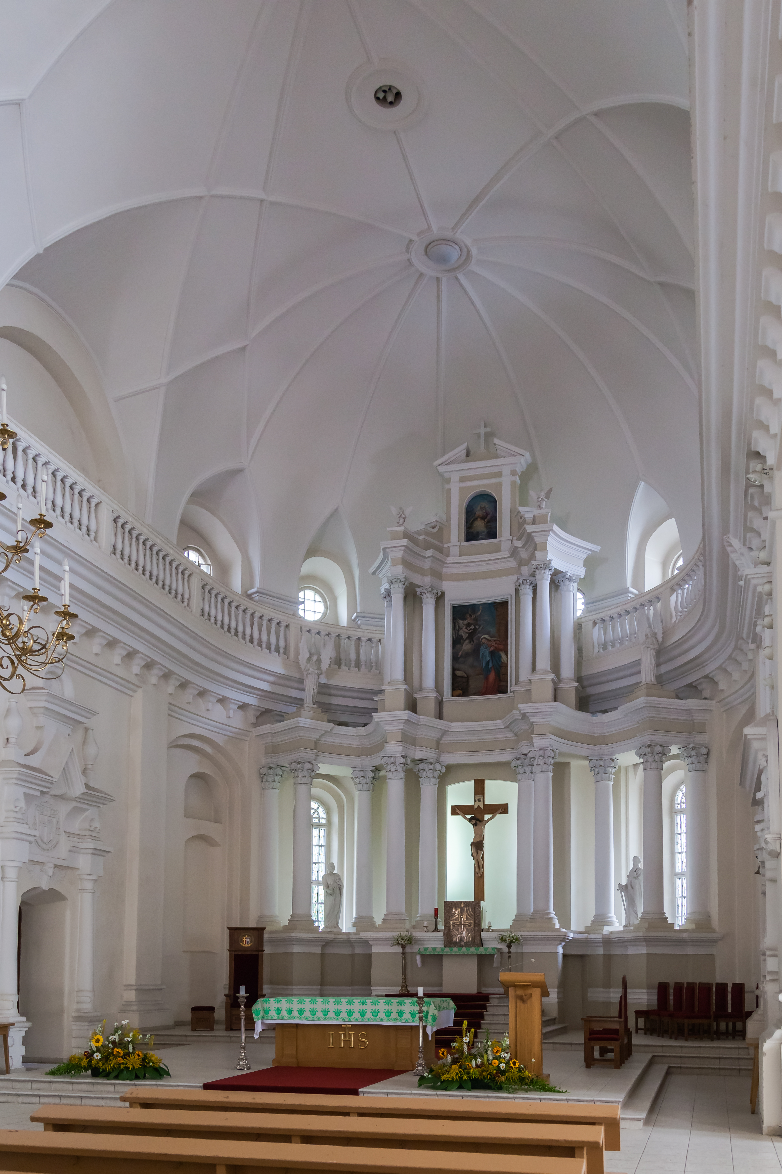 Siauliai Cathedral, Lithuania